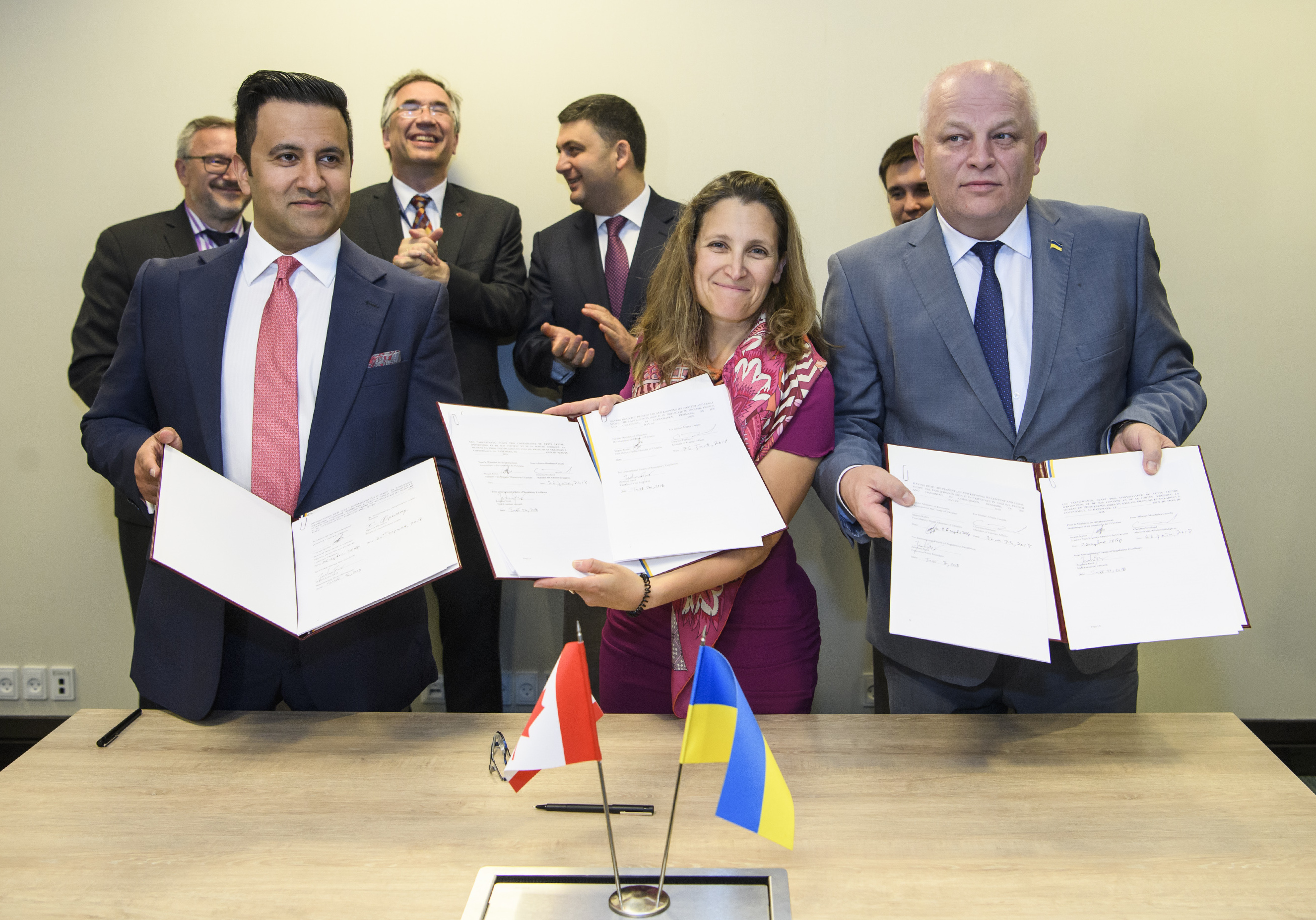 Prime Minister Volodymyr Groysman in Denmark held talks with Minister for Foreign Affairs of Canada Chrystia Freeland. During the negotiations, a Letter of Intent was signed between ICORE Energy Services, the Government of Ukraine and the Government of Canada.